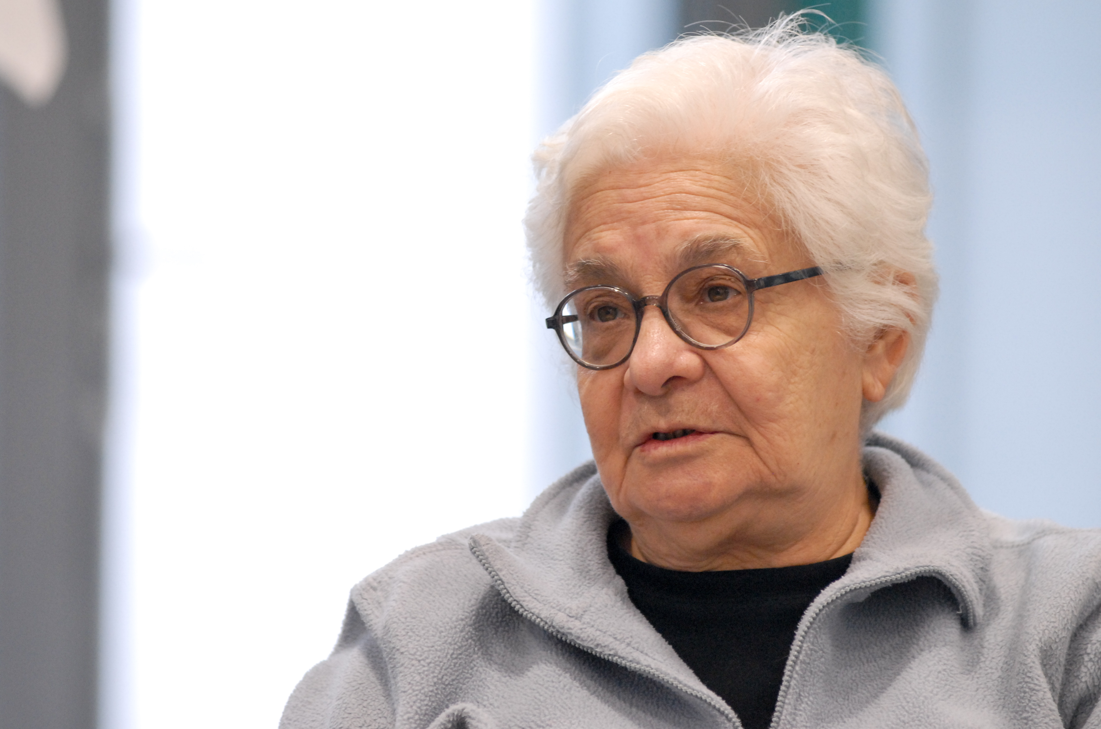 Marta Benavides bei einem Interview der "politikorange" der Jugendpresse Deutschland im Gustav-Stresemann-Institut Bonn im Jahr 2018.